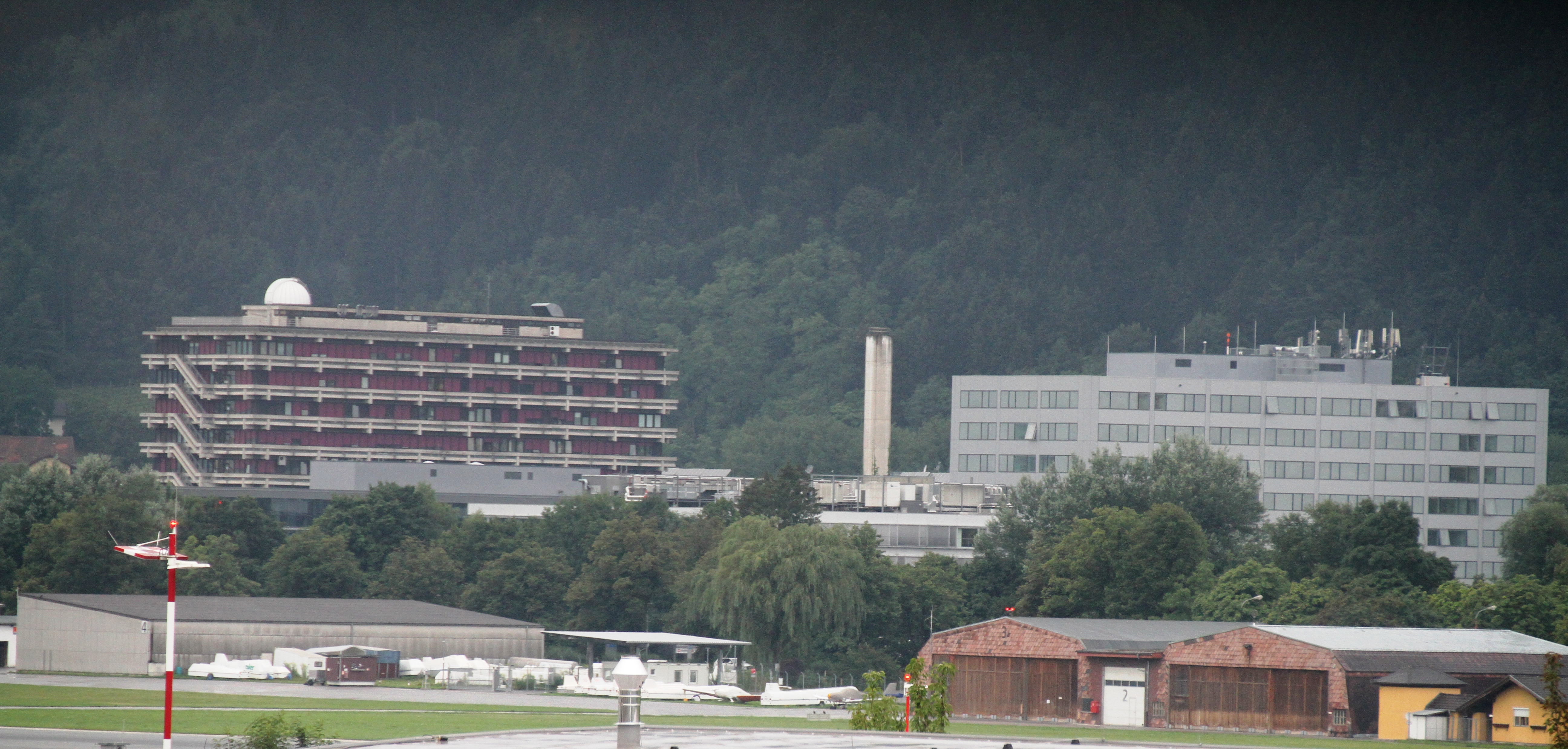 Technical Campus (CT) of the University of Innsbruck, Austria